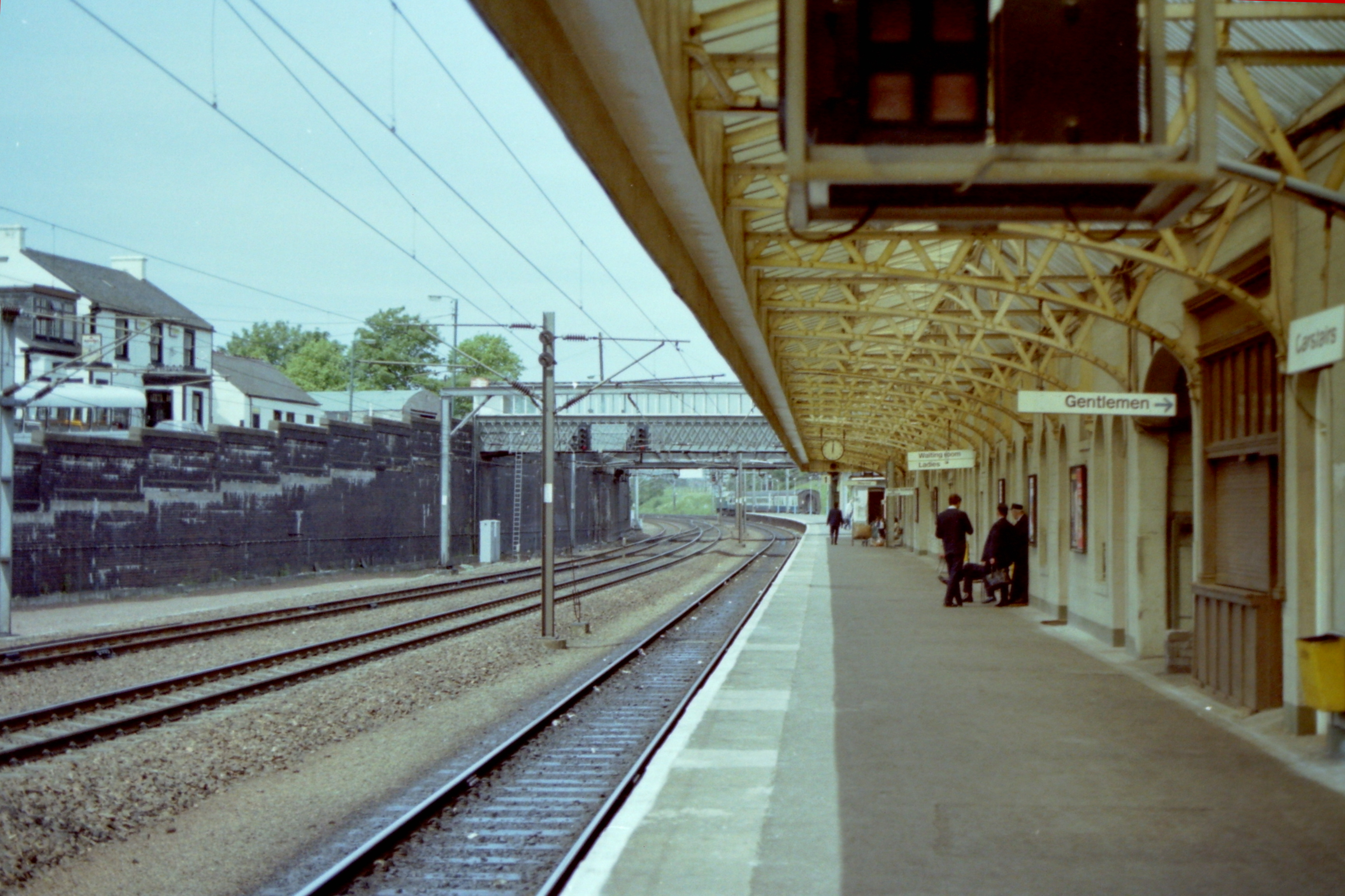 Down platform at Carstairs railway station on 18 June 1983 with an Edinburgh portion of a southbound train being shunted in the background with the old station building still in situ.